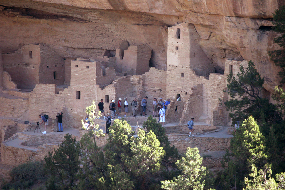 Kodak House in the Mesa Verde National Park